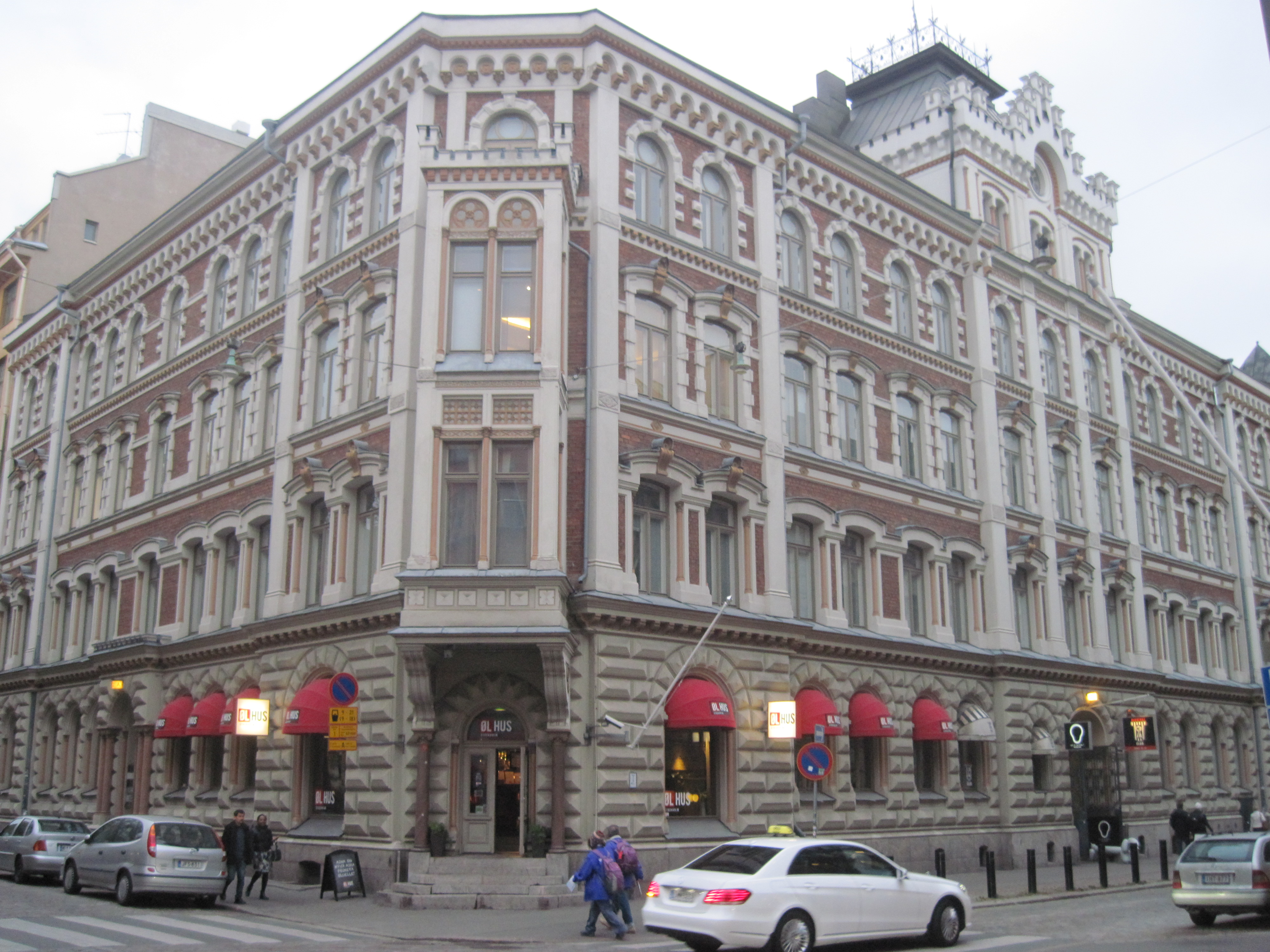 Marinadi House at the corner of Eerikinkatu and Annankatu, Helsinki, Finland